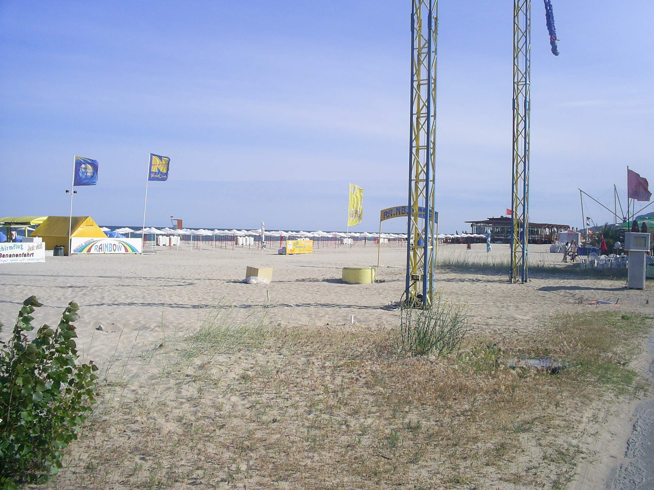 Beach in the sea resort Albena